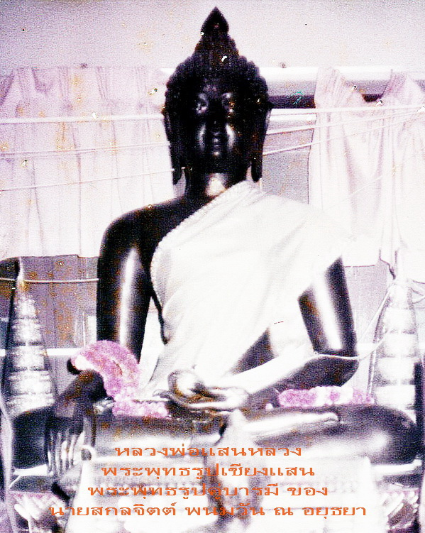 LUANG POR SAEN LUAND Chiang Saen Period Buddha Statute